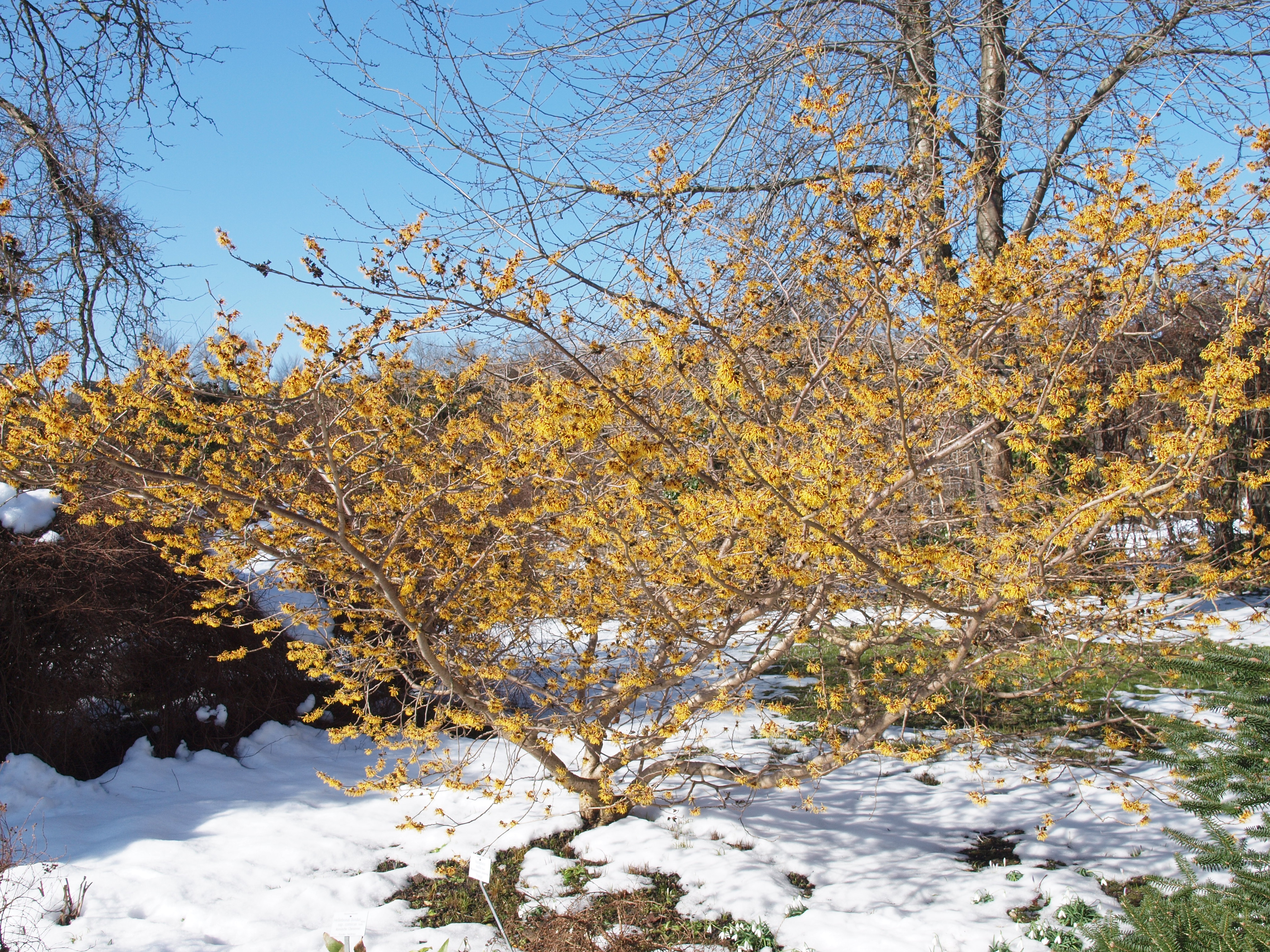 Hamamelis molis Sorte 'Orange', Botanical garden Munich